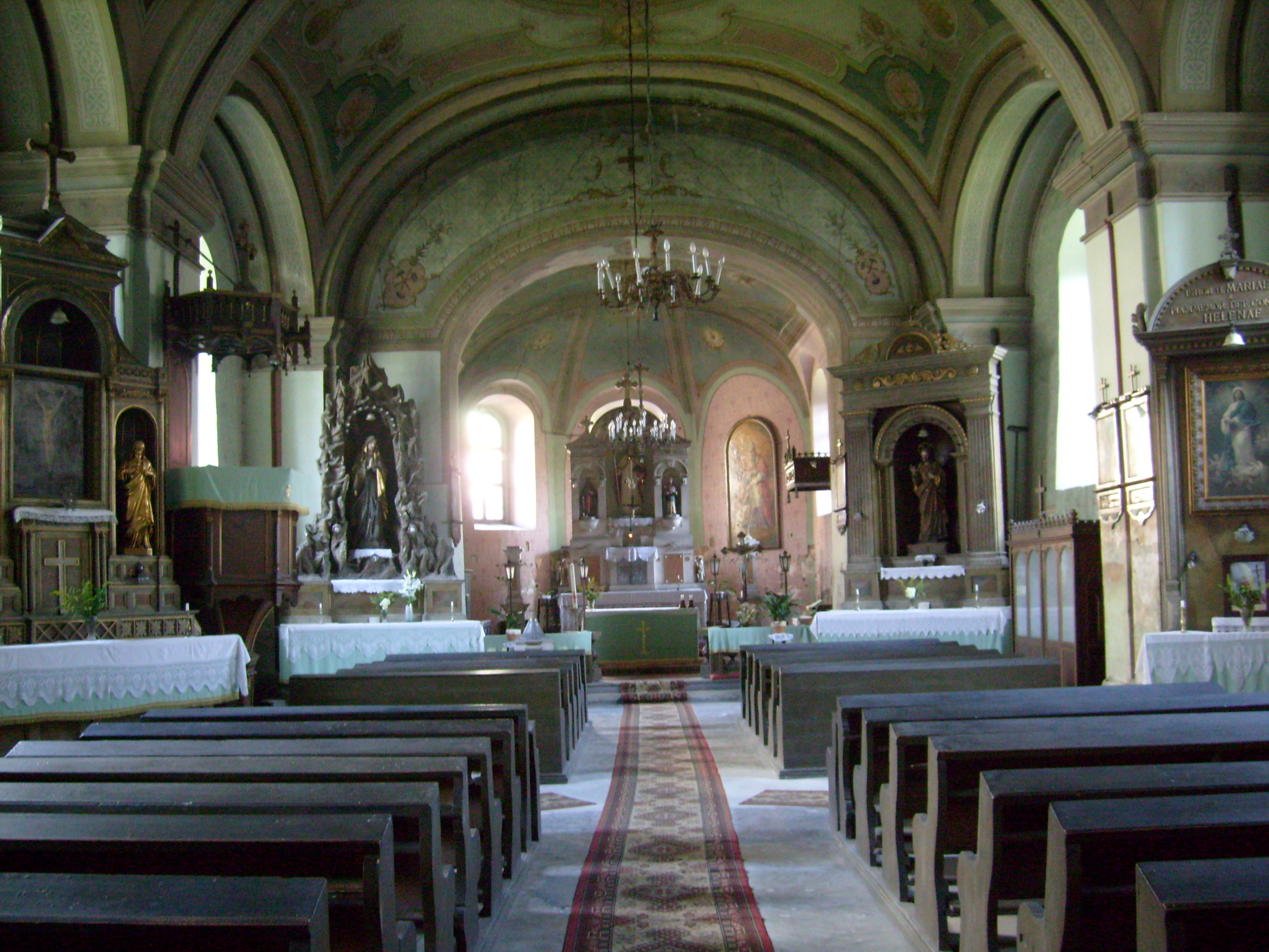 Interior of the St. Nicholas Church in Abrud (originally Gothic Style, destroyed 1848, rebuilded).